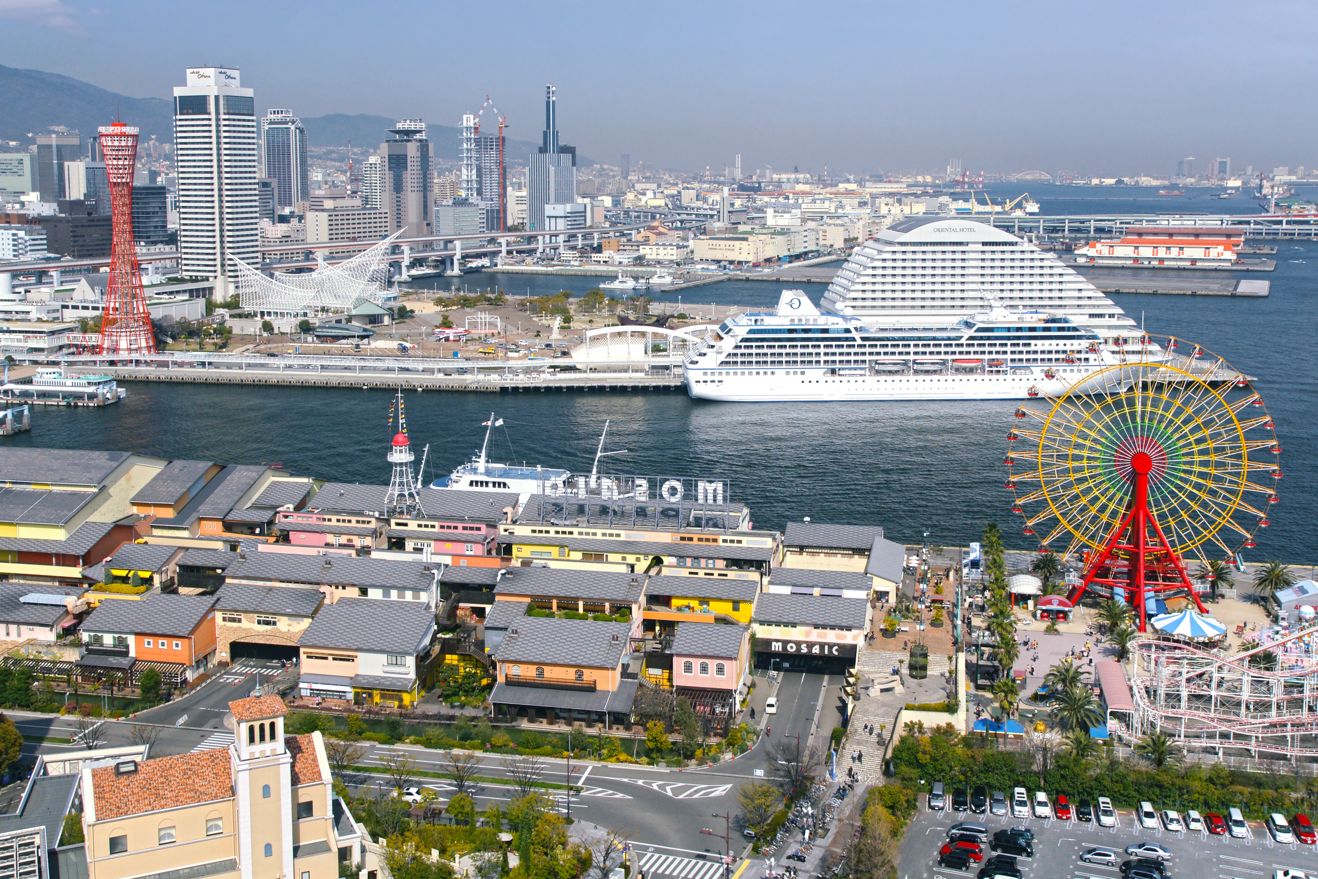 "MOSAIC" of Harborland in Kobe, Hyogo prefecture, Japan